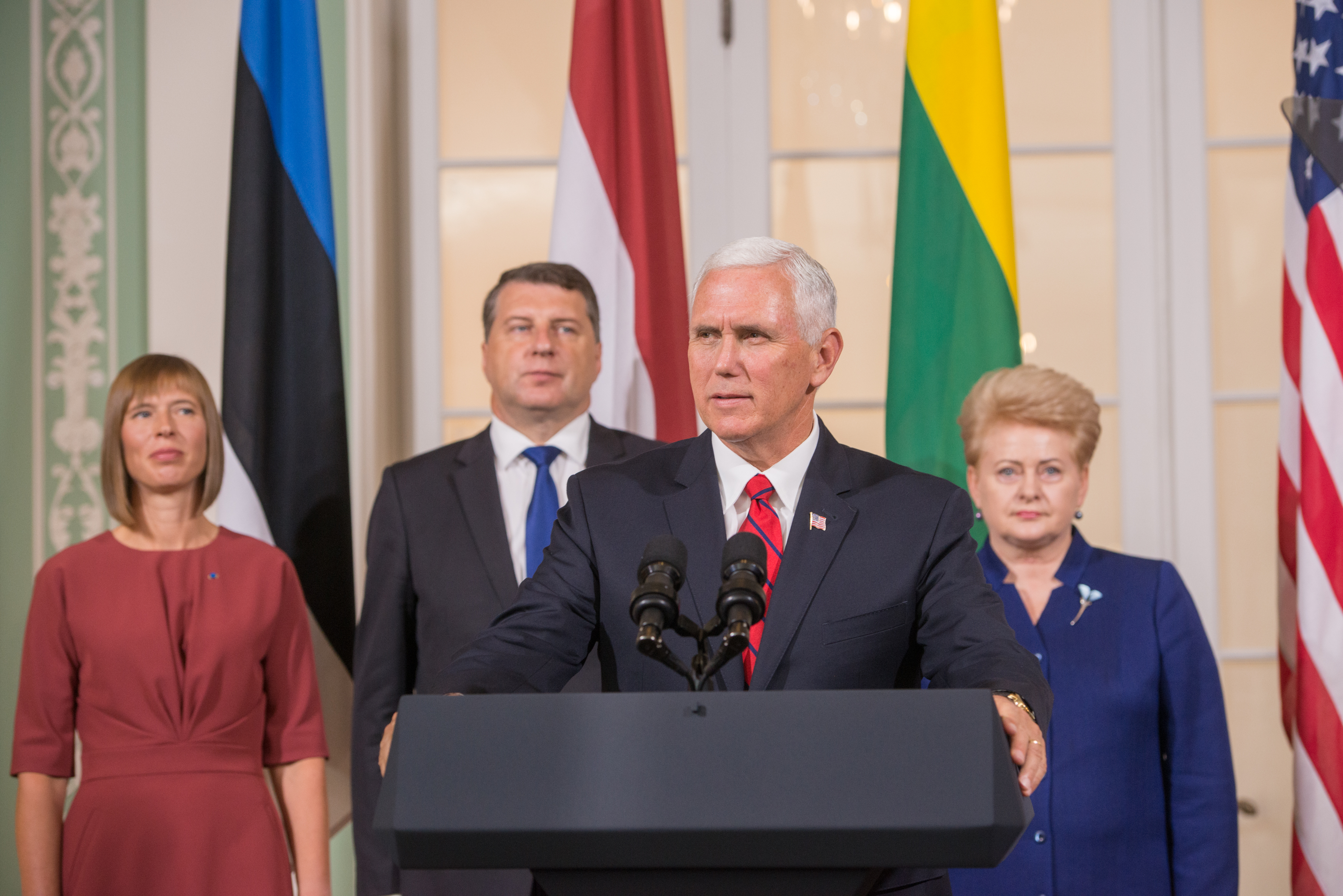 Photo: Raigo Pajula (Ministry of Foreign Affairs)